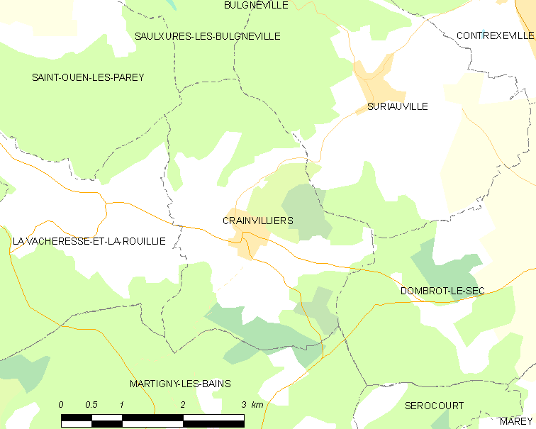 Map of French municipality Crainvilliers